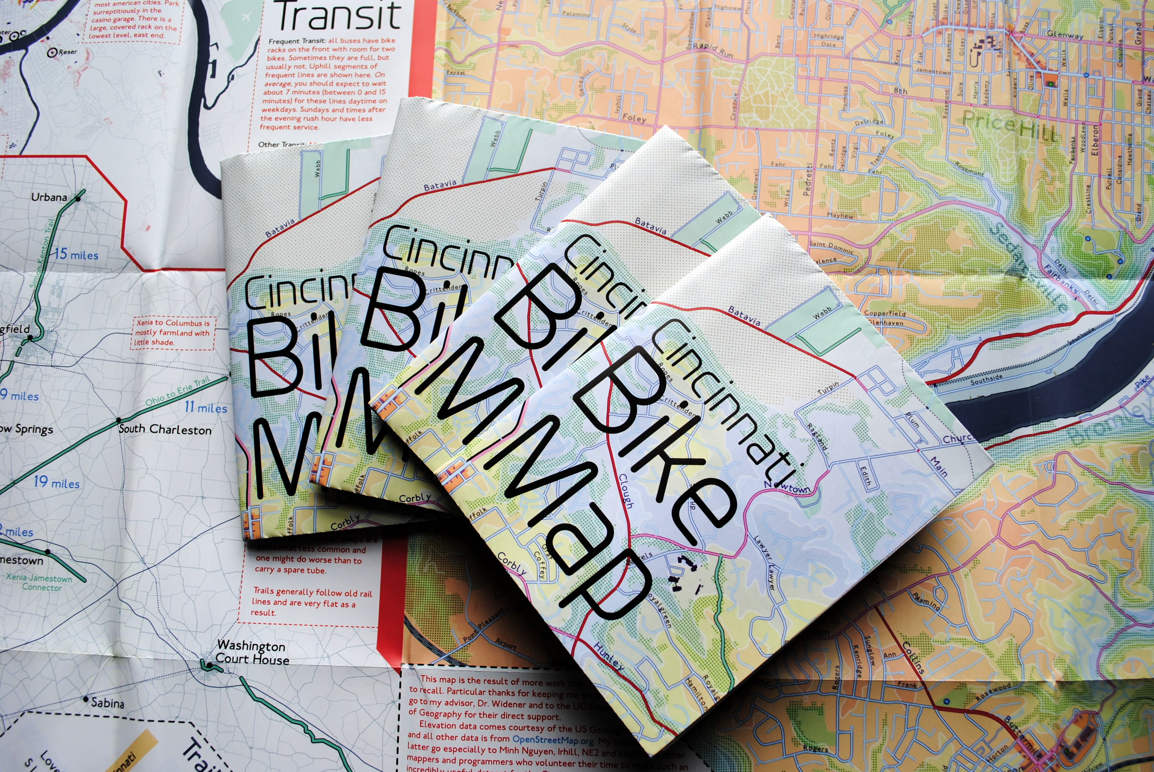 The Cincinnati Bike Map, a comprehensive cycle map of Cincinnati, Ohio, based on OpenStreetMap data, shown folded and unfolded.